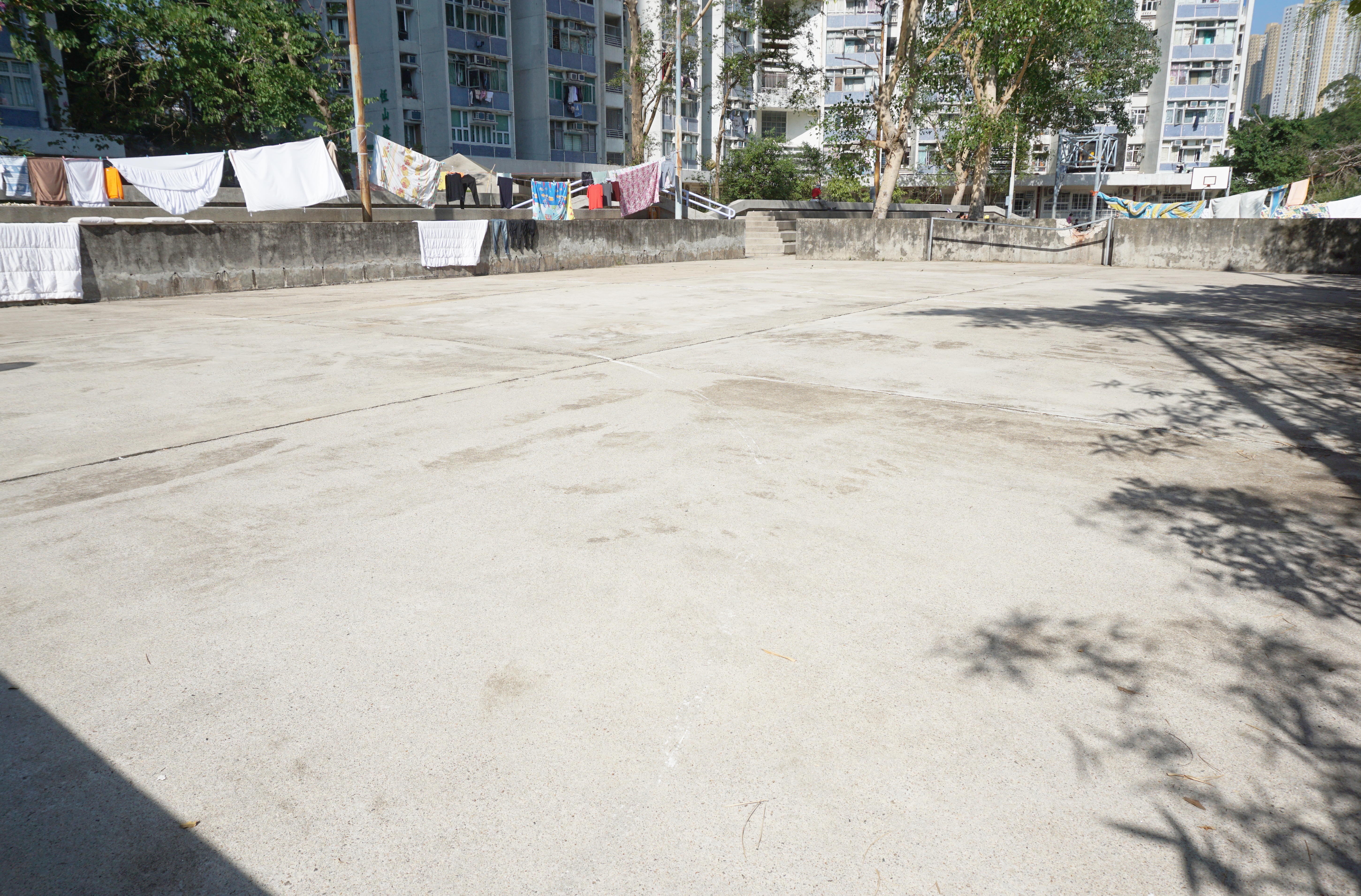 Heng On Estate in Heng On, Hong Kong.